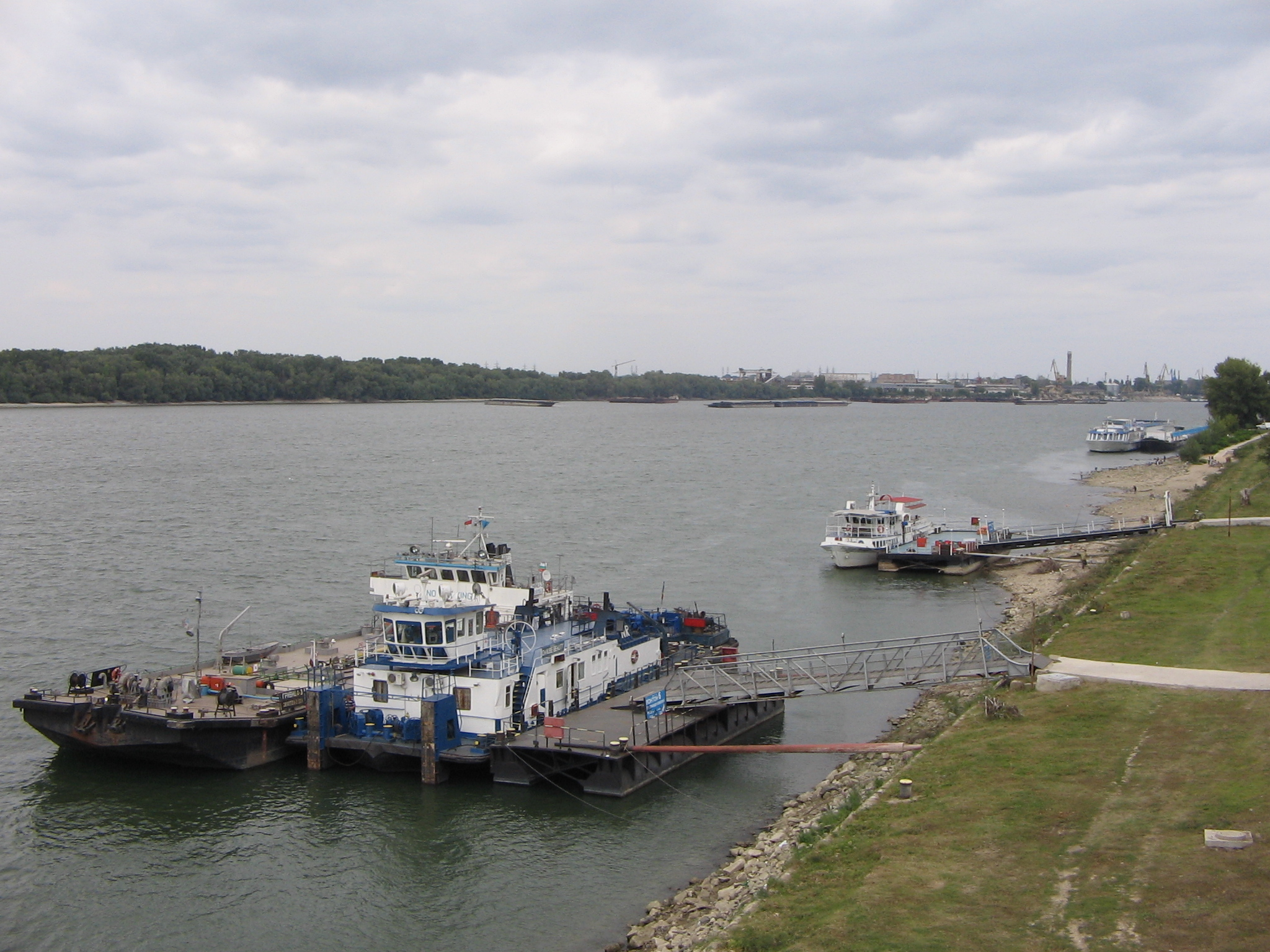 Quay at Danube River in Rousse, Bulgaria. The shore at left is Roumania.